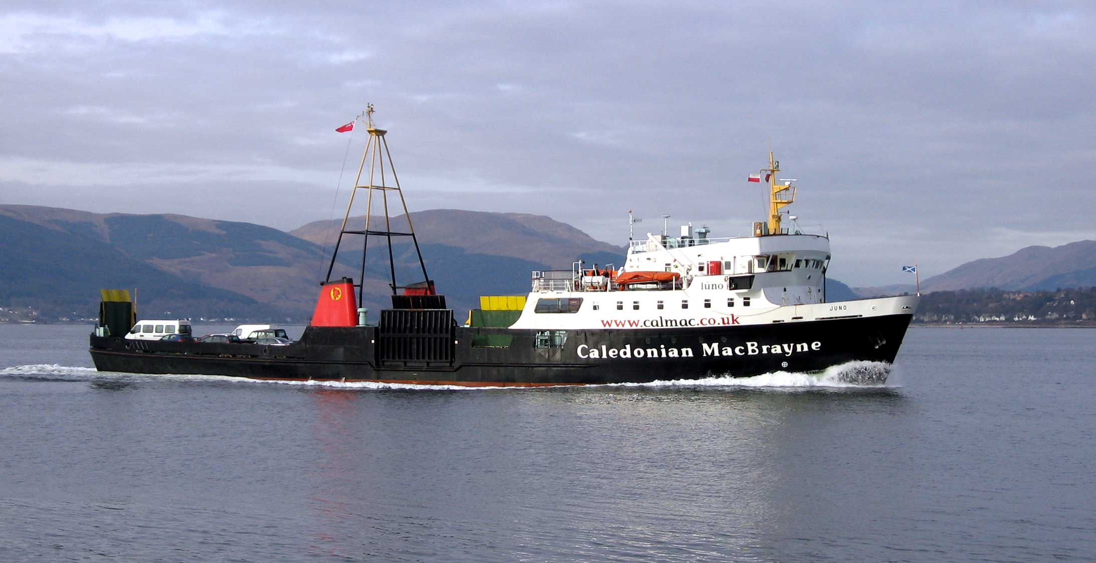 The Caledonian MacBrayne ferry MV Juno approaching Gourock pierhead from Dunoon.